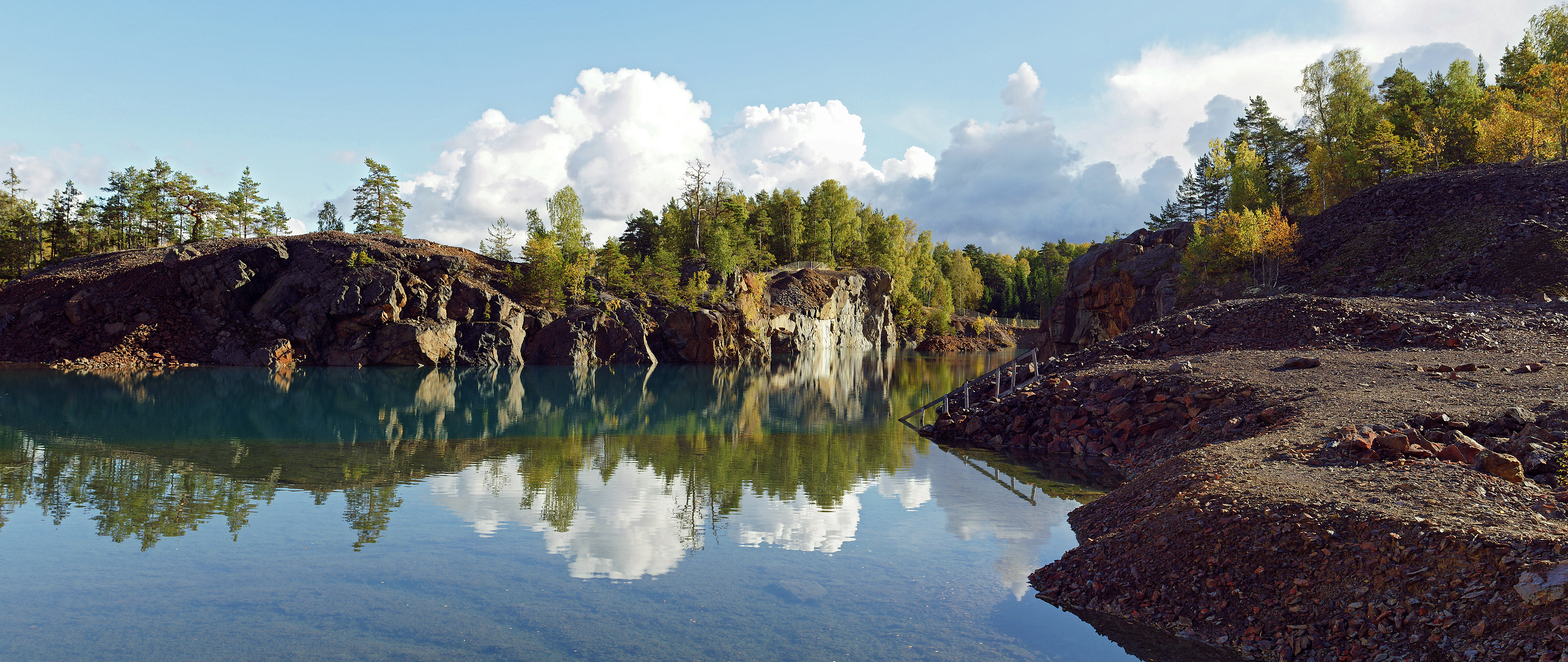 Old copper mine of Orijärvi in Kisko, Finland.